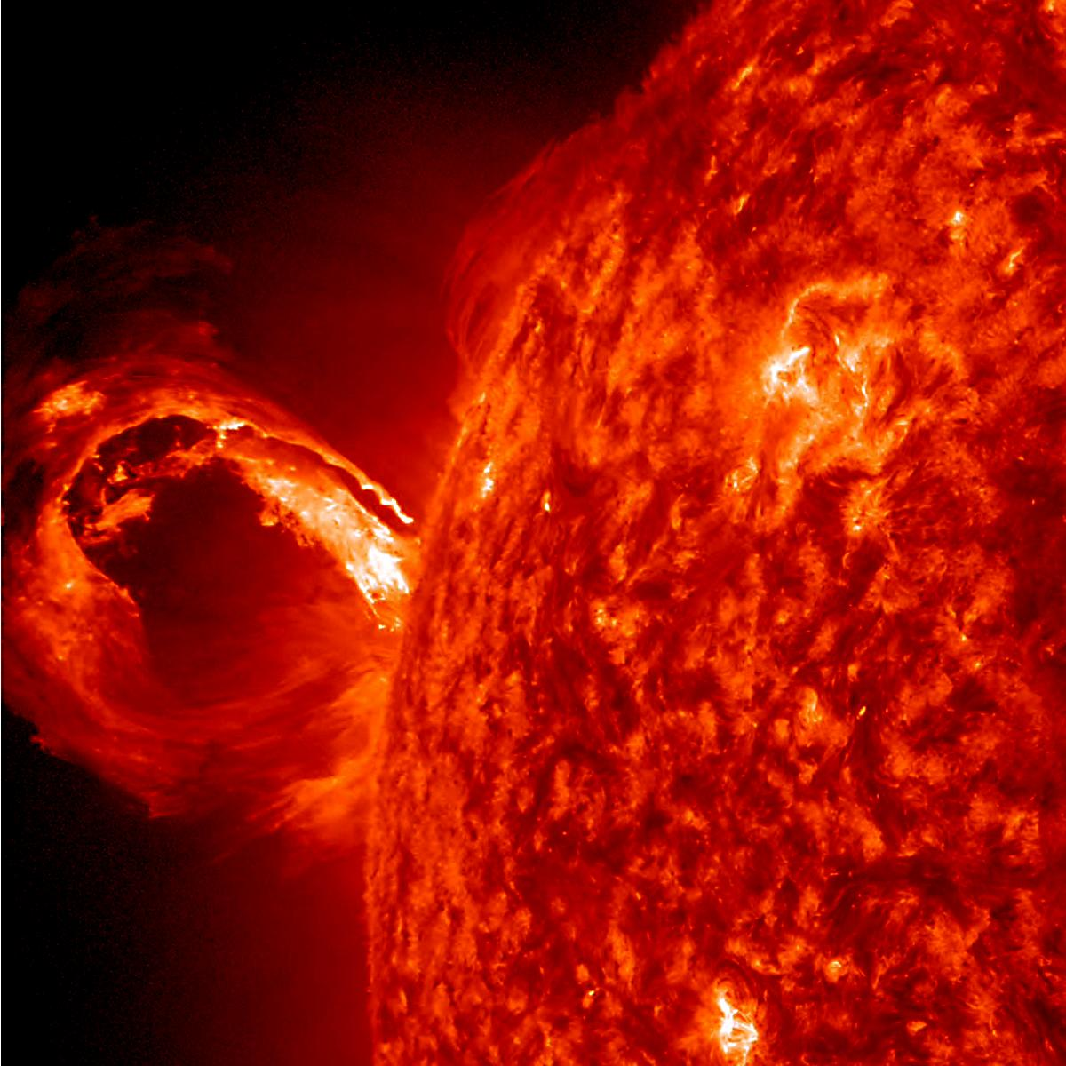 A coronal mass ejection (CME) erupted from just around the edge of the sun on May 1, 2013, in a gigantic rolling wave. CMEs can shoot over a billion tons of particles into space at over a million miles per hour. This CME occurred on the sun’s limb and is not headed toward Earth.